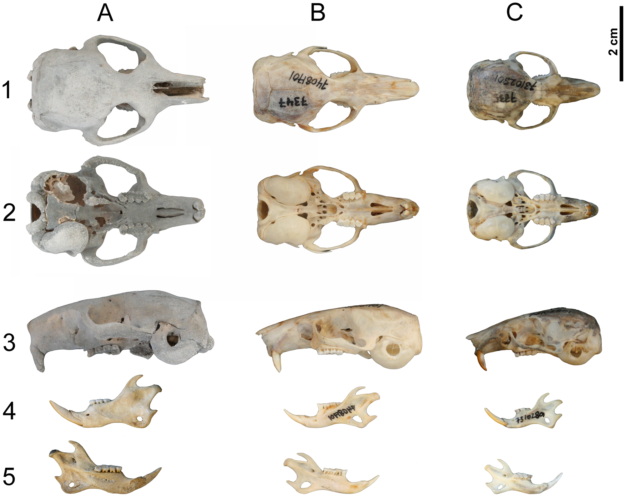 Skulls of: A) Hypnomys morpheus (CSC-2); B) Eliomys quecinus ophiusae (IMEDEA 7347); C) Eliomys quercinus s.l. (IMEDEA 7335). Skull in 1) dorsal, 2) ventral and 3) lateral views. Mandible in 4) labial and 5) lingual views.